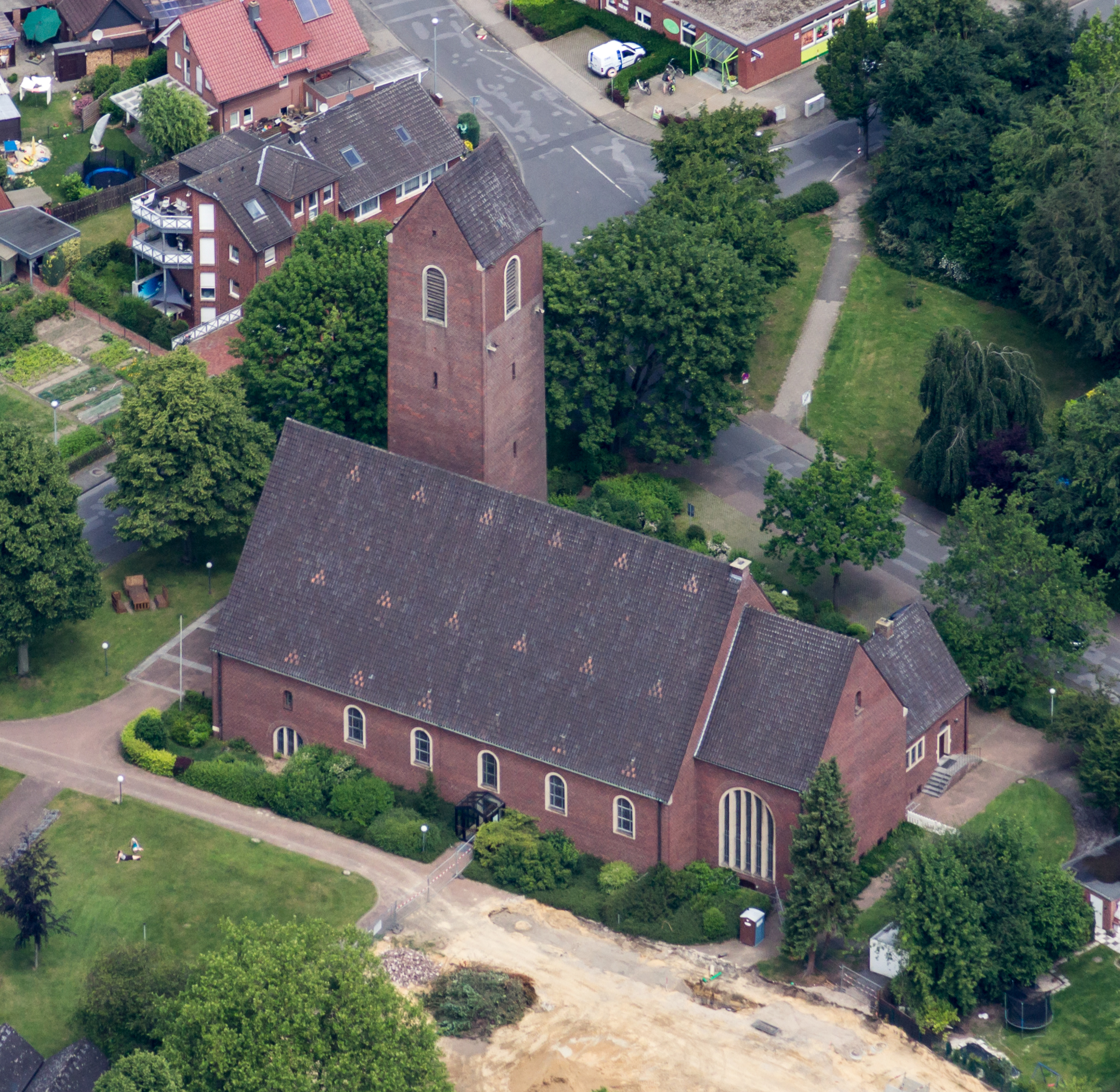 St. Mary's Church, Greven, North Rhine-Westphalia, Germany